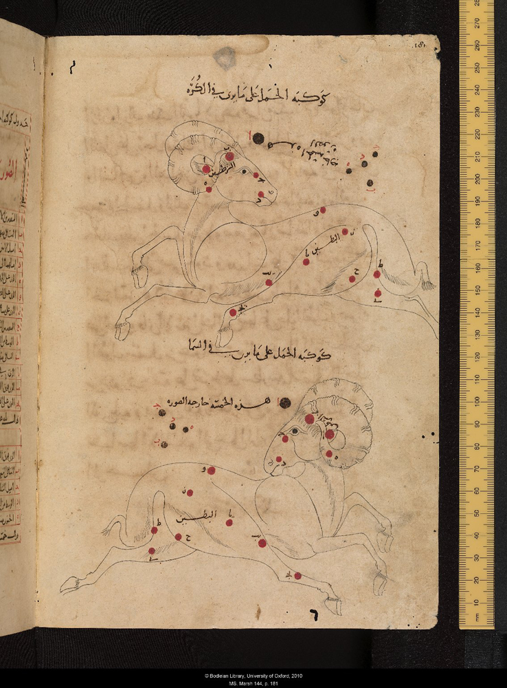 Aries, the ram. (Signs of the zodiac). From Al-Sufi's Book of the Fixed Stars (Kitāb Ṣuwar al-kawākib (al-thābitah)), a revision of Ptolemy's Almagest with Arabic star names and drawings of the constellations. Dated 1009-10 (A.H. 400). Shelfmark: MS. Marsh 144.